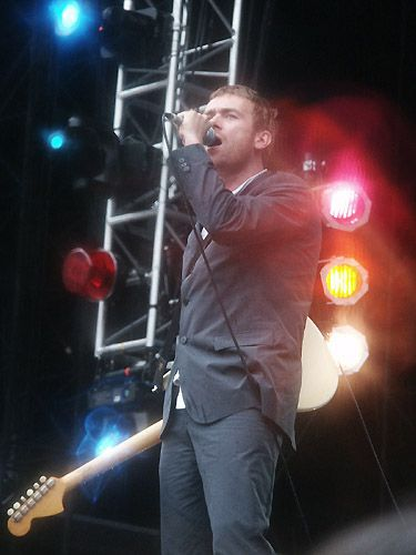 Field Day Fiasco 2003